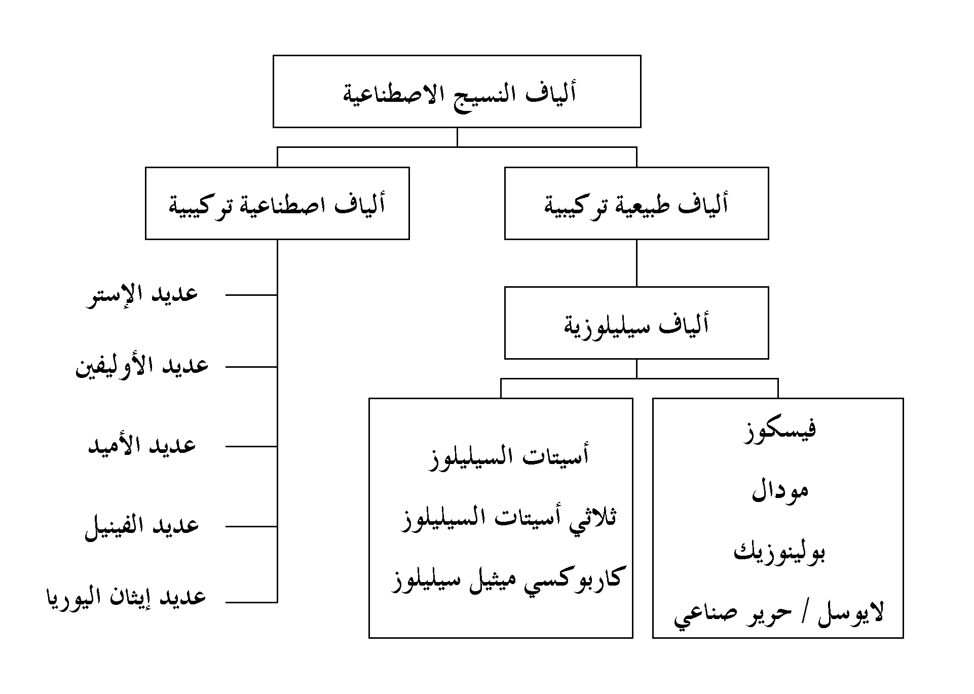 man-made fibers